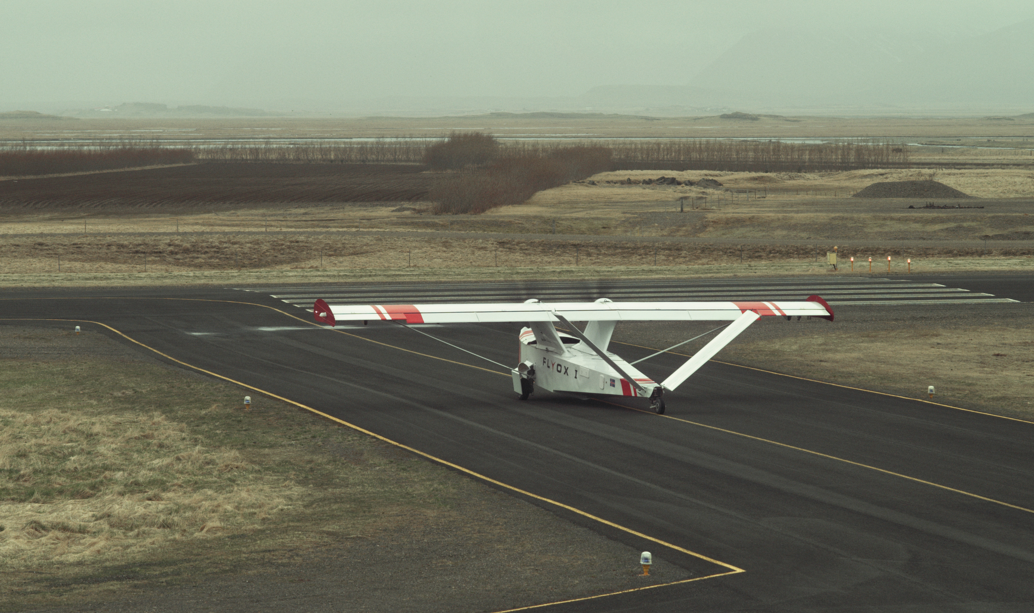 Runway threshold.